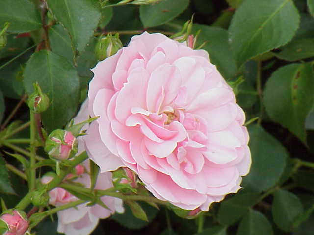 Species: Rosa sp. Family: Rosaceae Cultivar: Bonica ´82, Meilland 1981 Image No. 60